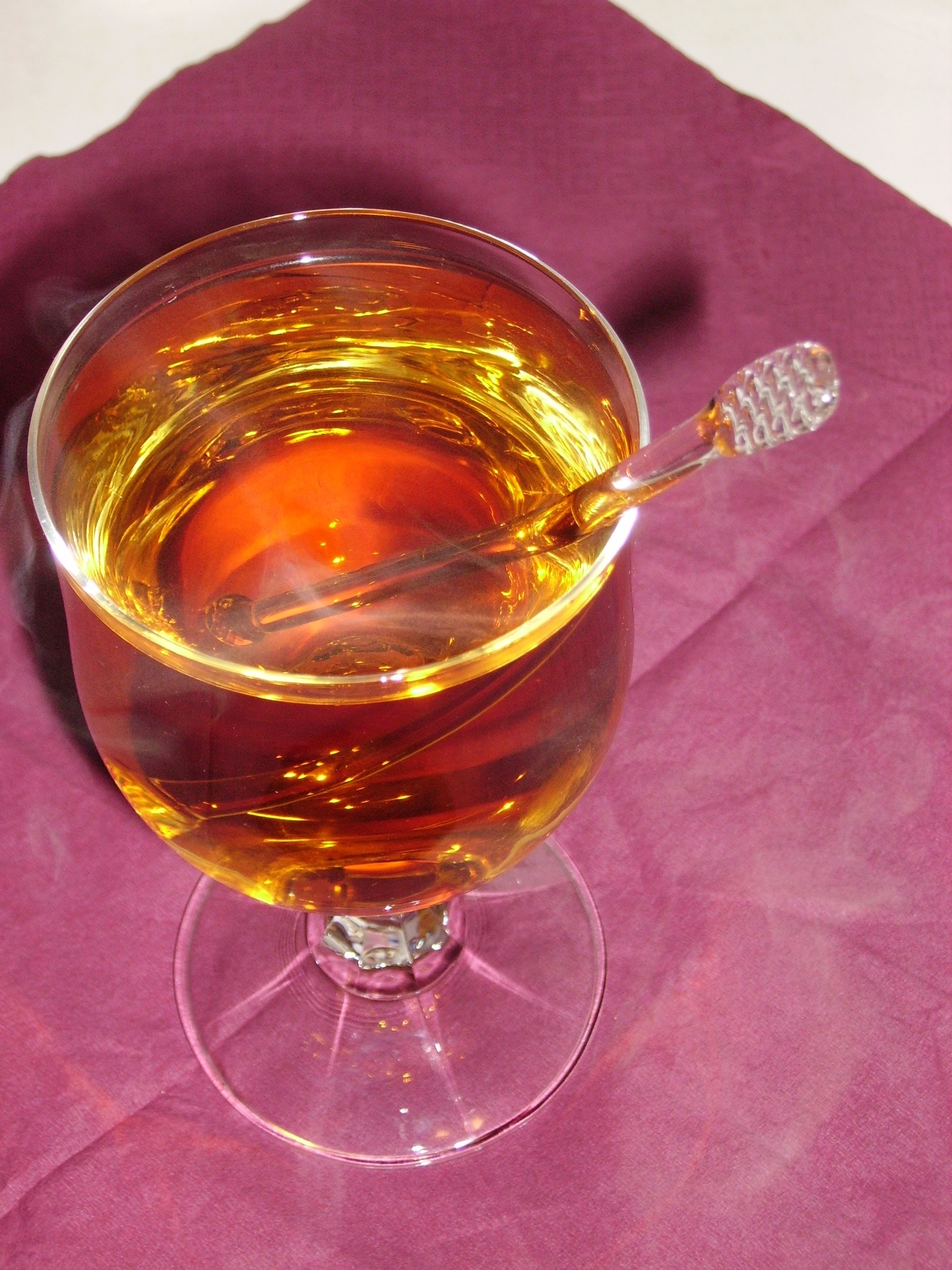 A glass of grog